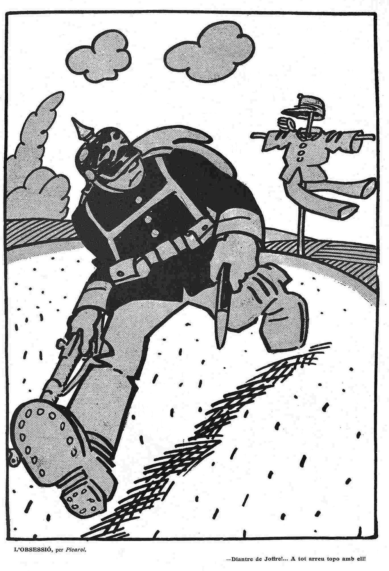 Satyric drawing about Josep Joffre (taken from Almanac de l'Esquella de la Torratxa, 1915